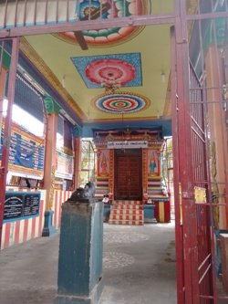 Kumbakonam bhavaniamman temple கும்பகோணம் பவானியம்மன் கோயில்